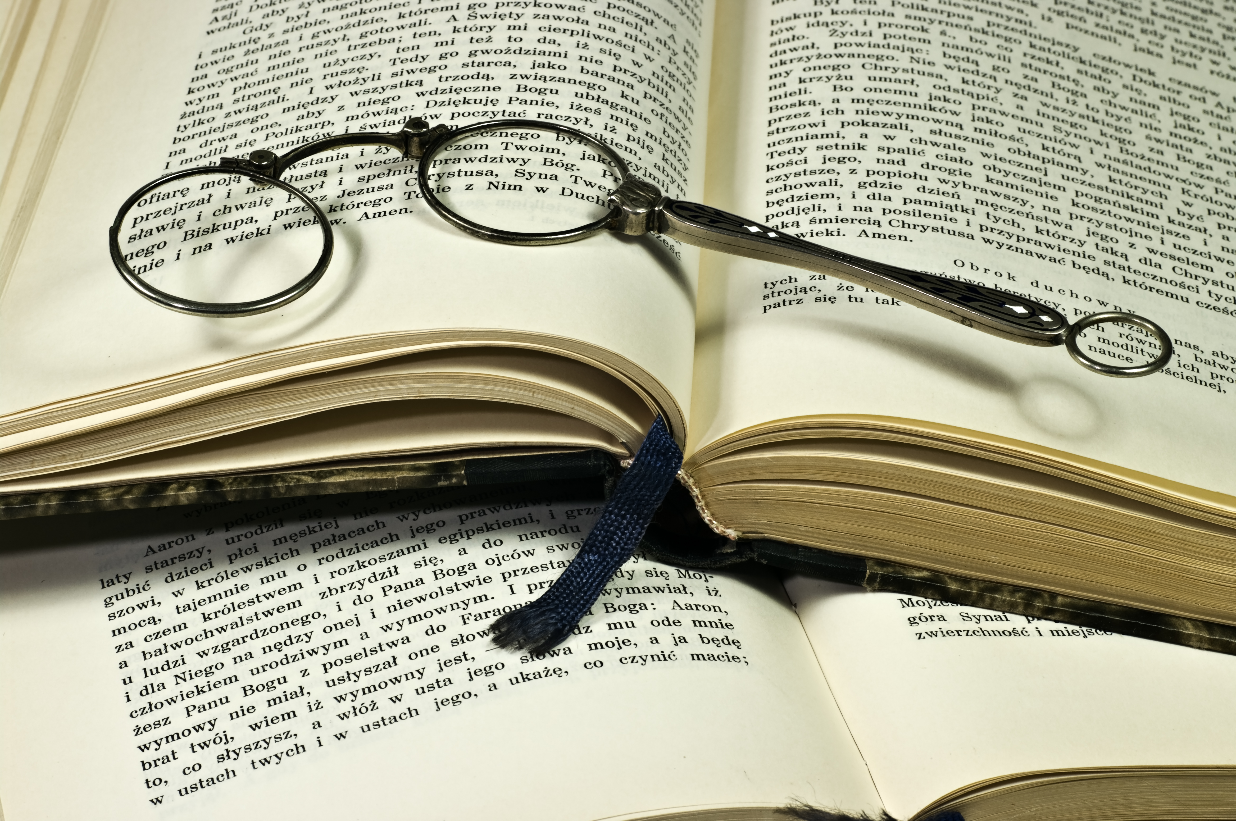 Lorgnette (hand held) spectacles.